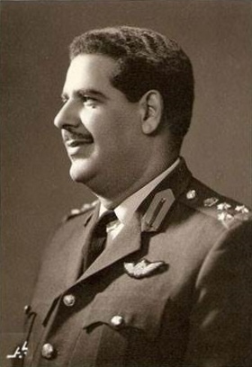 Hardan al-Tikriti, Iraqi general, politician and ambassador